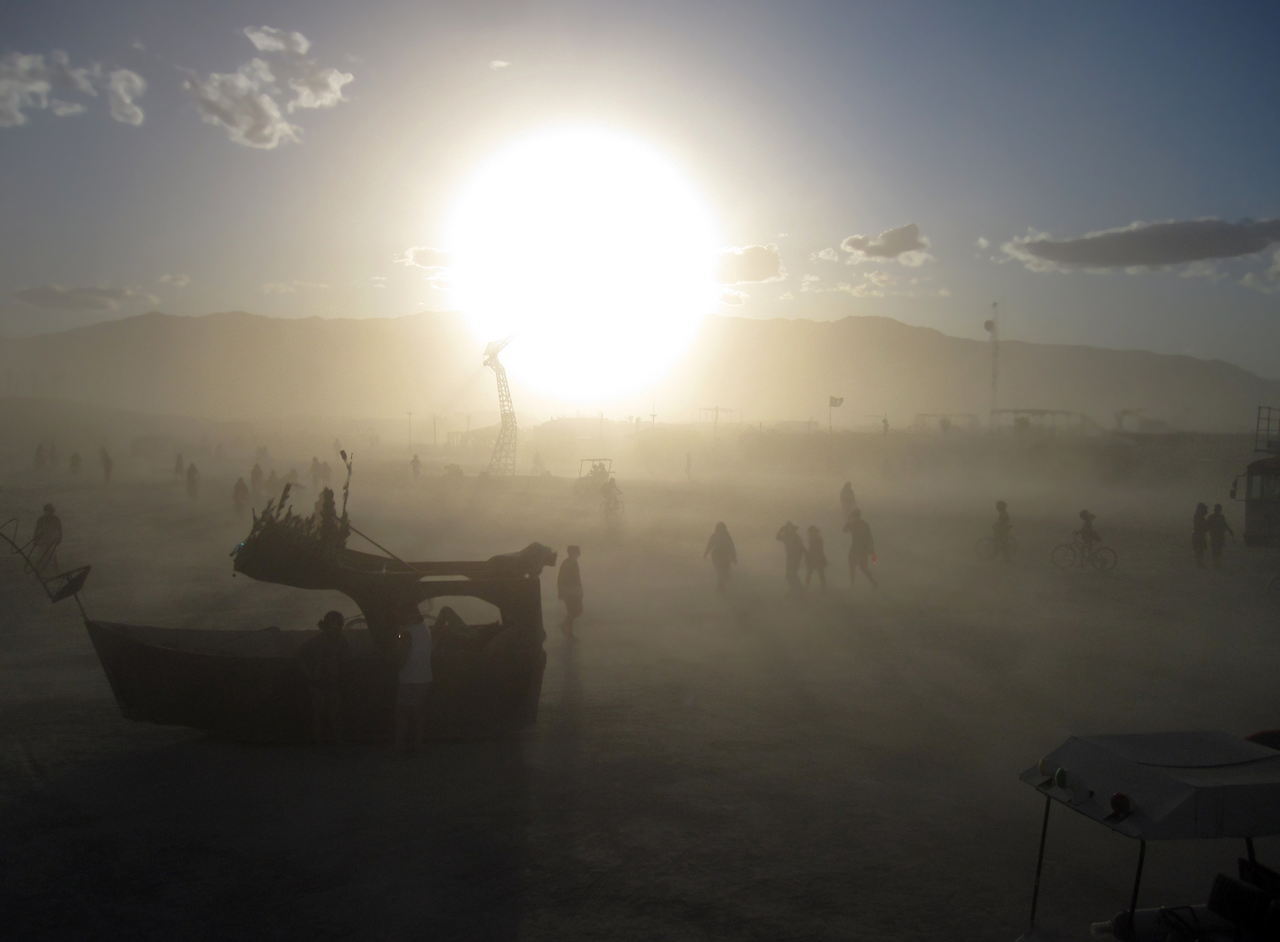 Dust Storm in Black Rock Desert